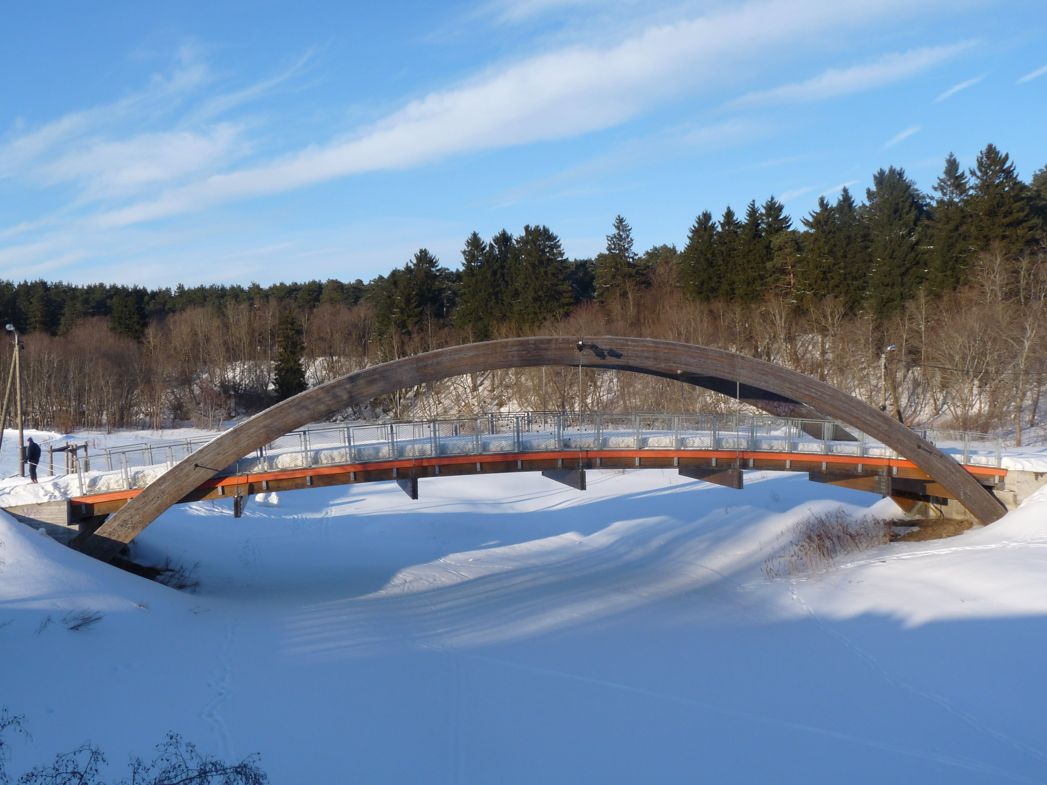 Wooden bridge over Pirita river for pedestrians